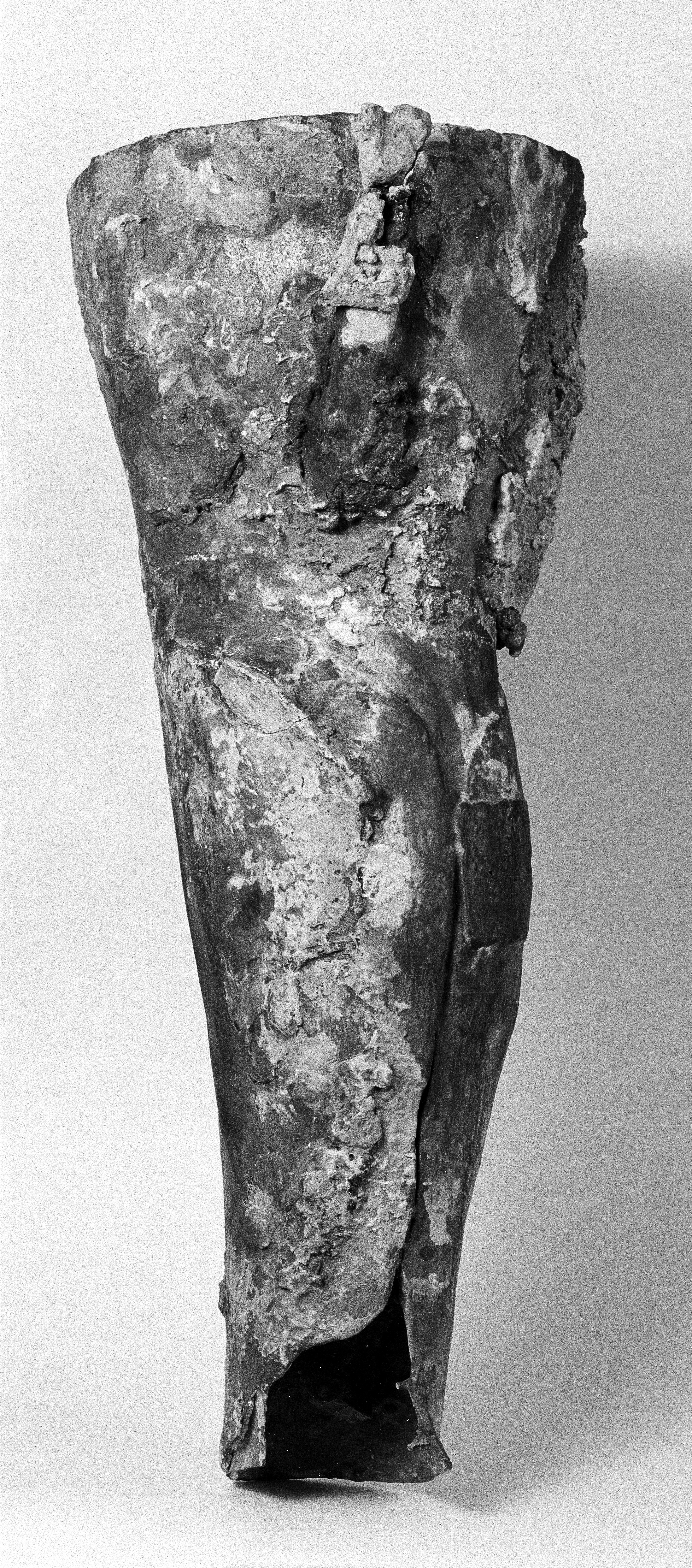 Roman artificial leg of bronze plates fastened to a wooden core, excavated from a tomb near Capua.